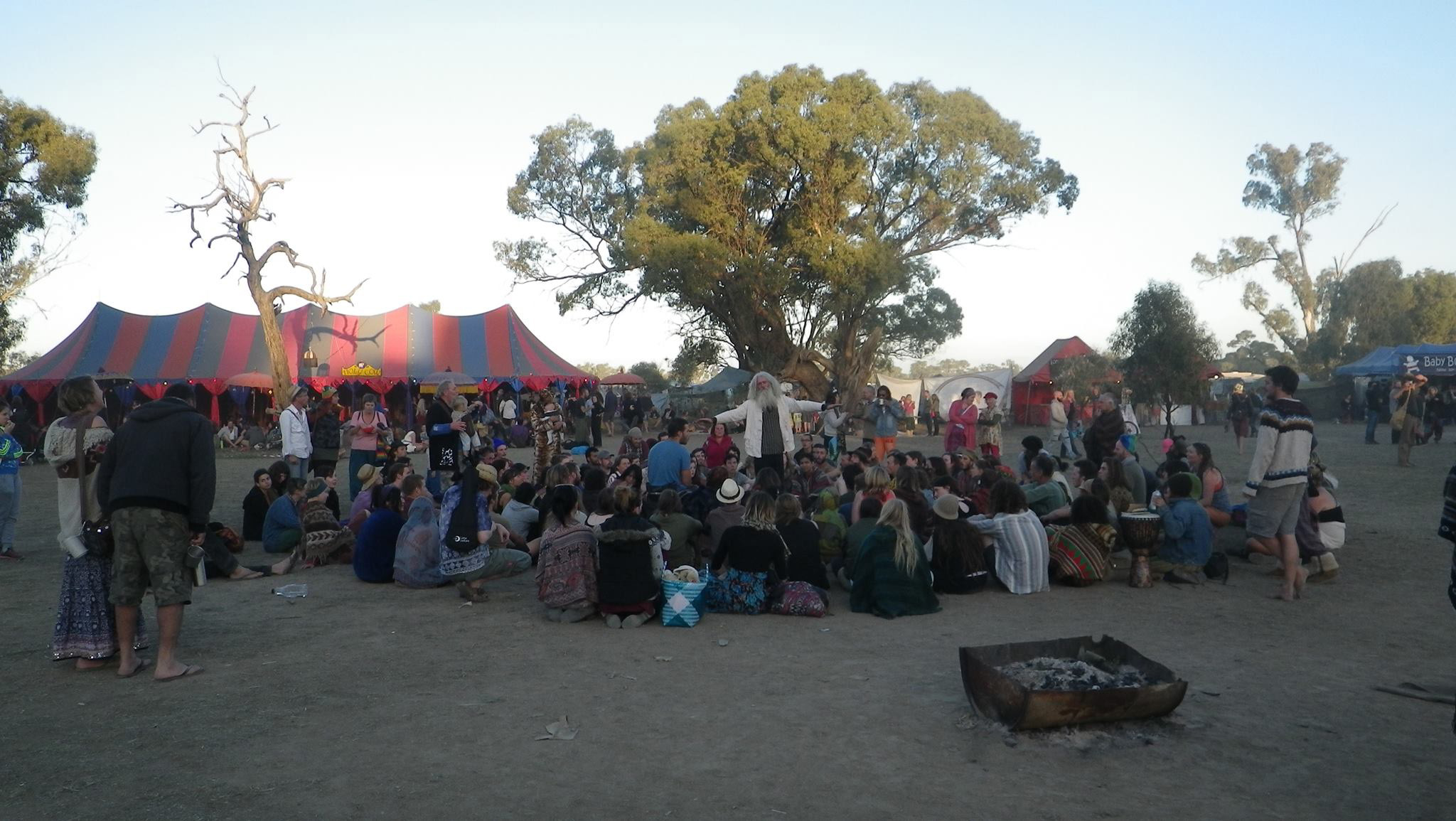 Peter Gleeson conducting a spontaneous choir at Easter ConFest 2014